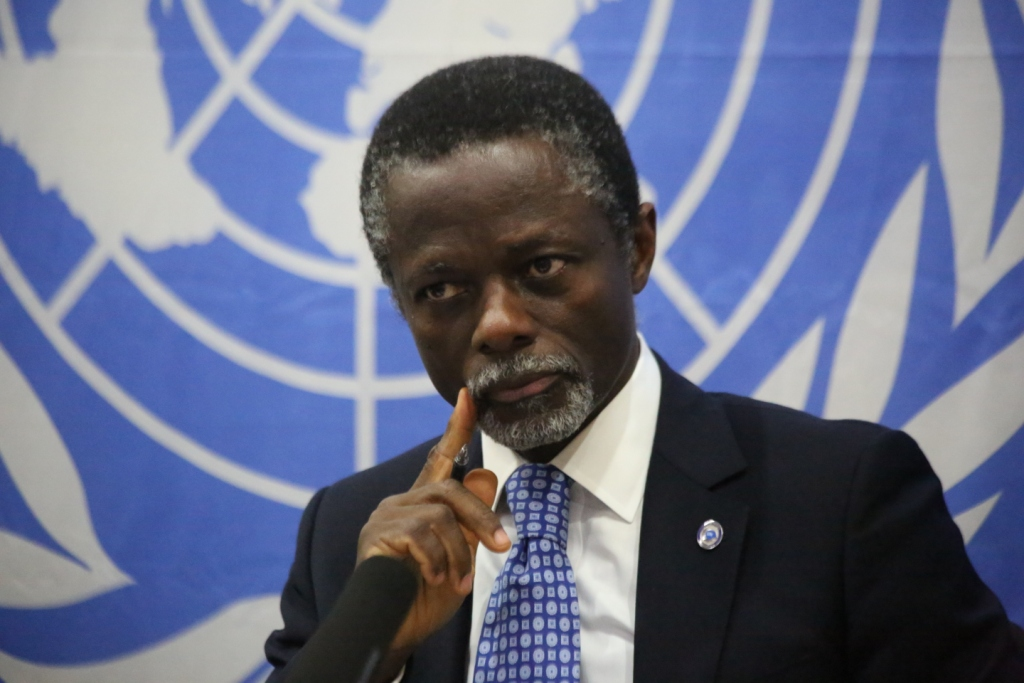 Parfait Onanga-Anyanga, on January 5th 2016